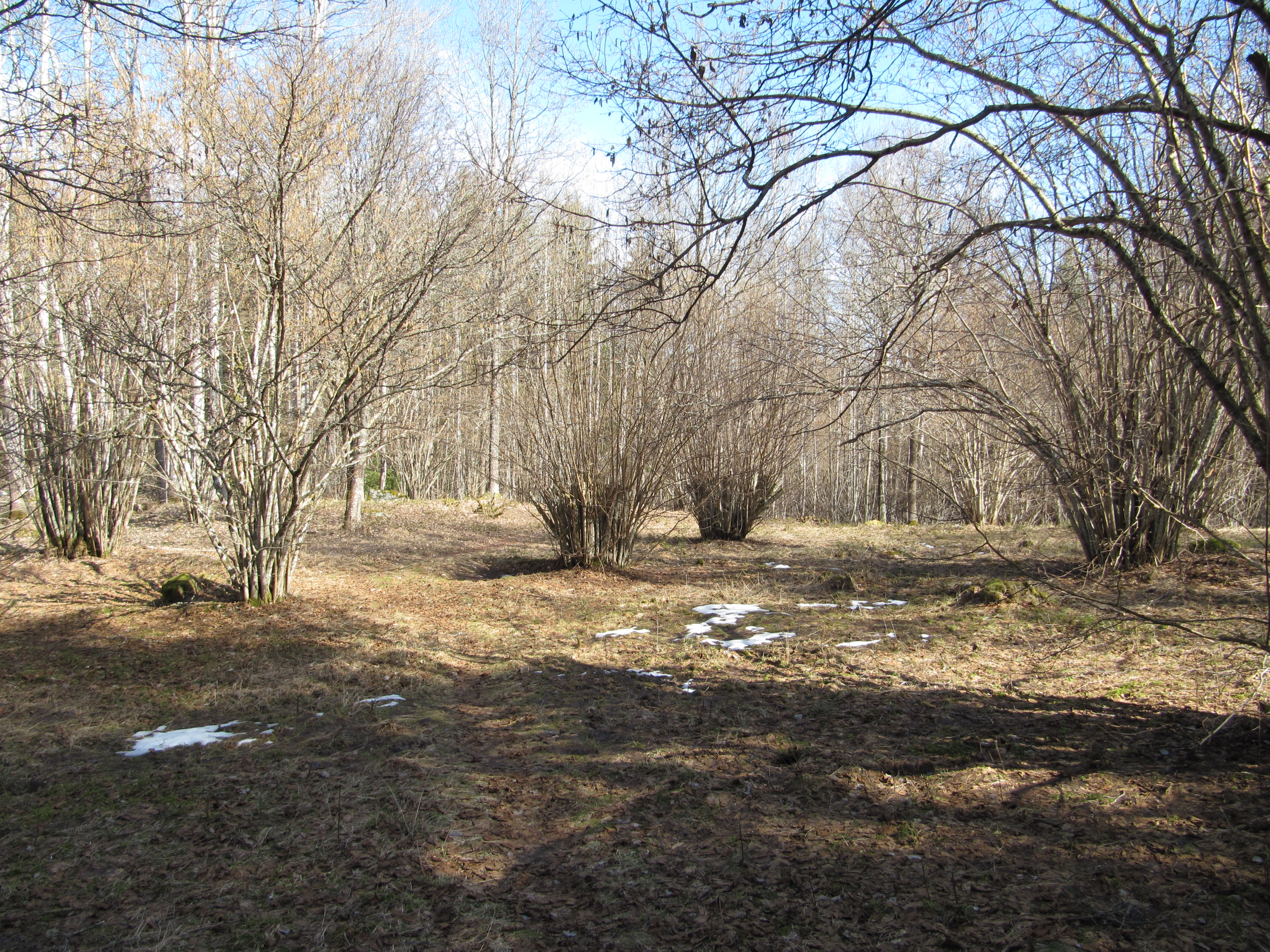 Kåviängen nature reserve outside Örebro, Sweden